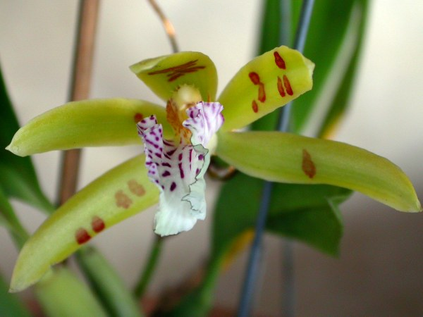 Helcia sanguinolenta